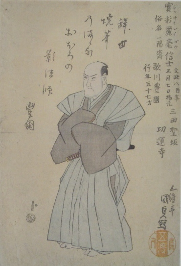 Memorial portrait (shini-e) of Toyokuni I by Kunisada, 1825